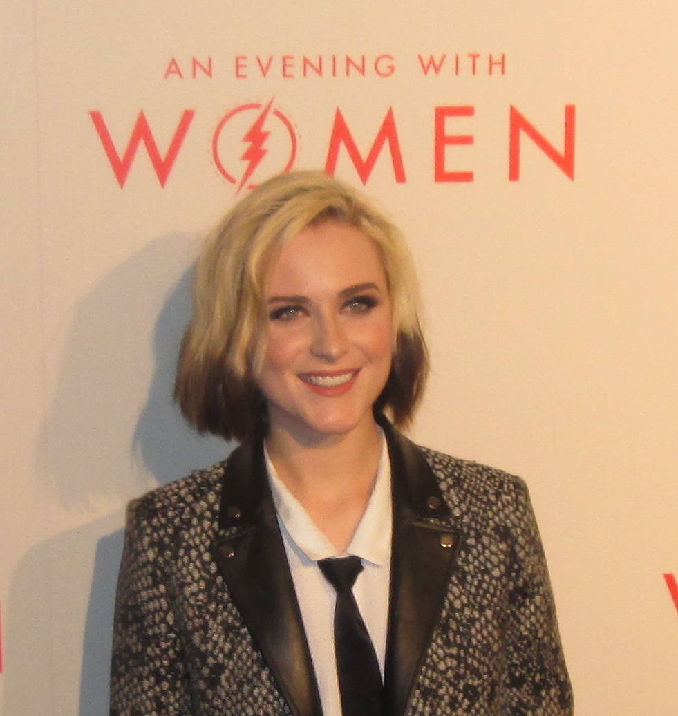 Actress Evan Rachel Wood at the 2014 "An Evening With Women" Benefiting L.A. Gay & Lesbian Center